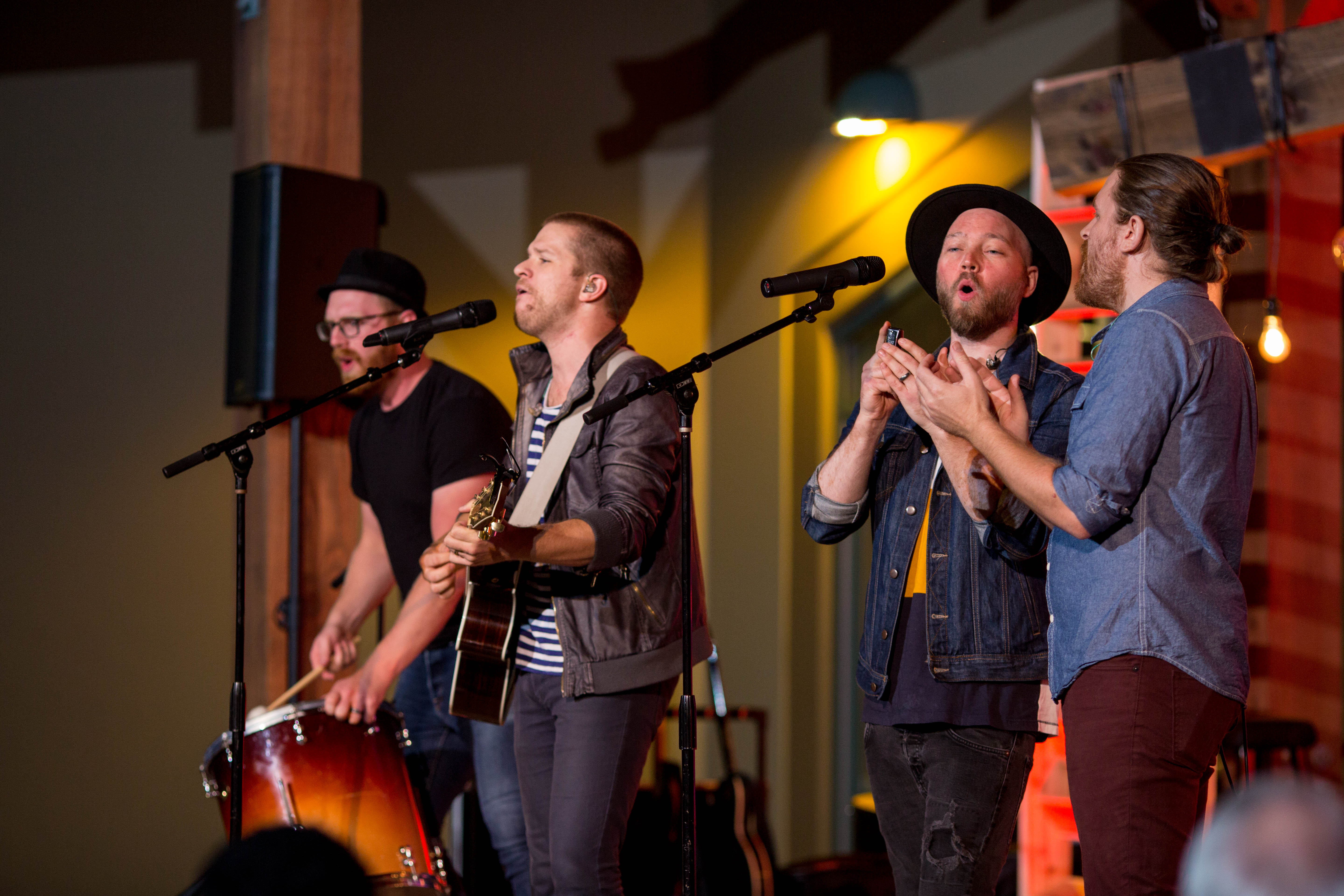 The City Harmonic concert at The Corner in Chesterfield, MO on September 19, 2015. They have some great songs and clearly a heart for the Gospel.